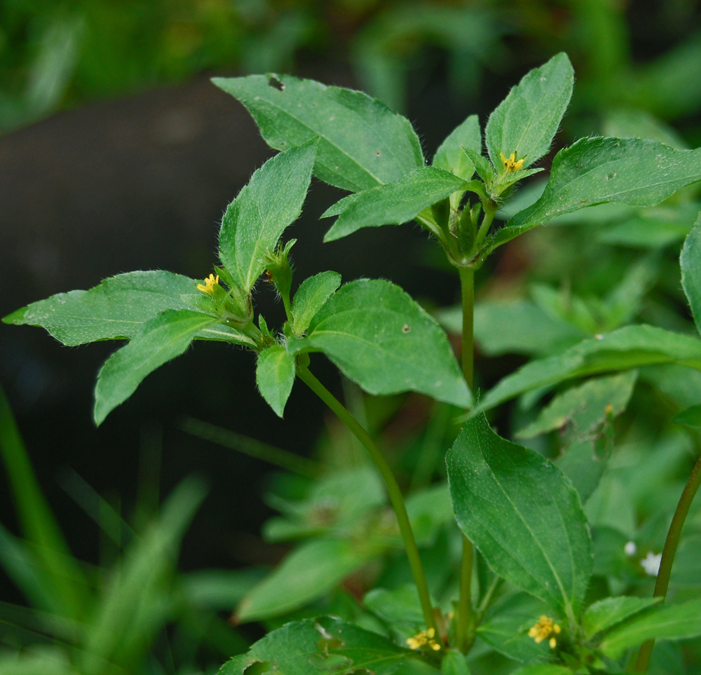 Synedrella nodiflora, habits. Darmaga, Bogor, West Java.